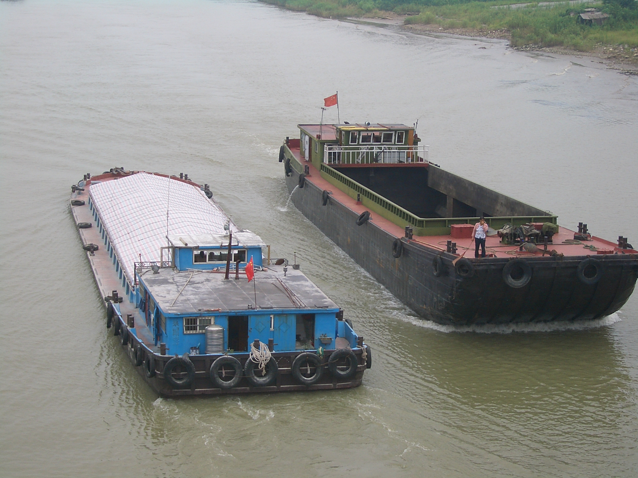 Two self-propelled barges pass each other on the modern route of the Grand Canal of China on the eastern outskirts of Yangzhou. (Looking north from a bridge).